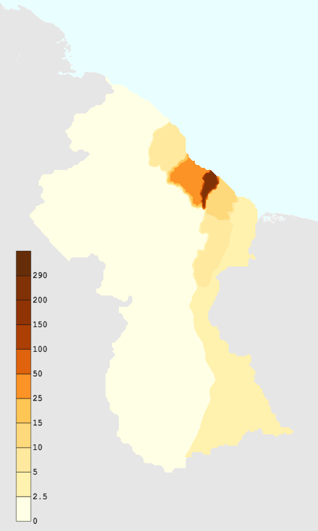 Guyana 2005 population density ( people per Km2). Data